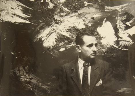 Norman Carton photo taken c1959 before one of his paintings